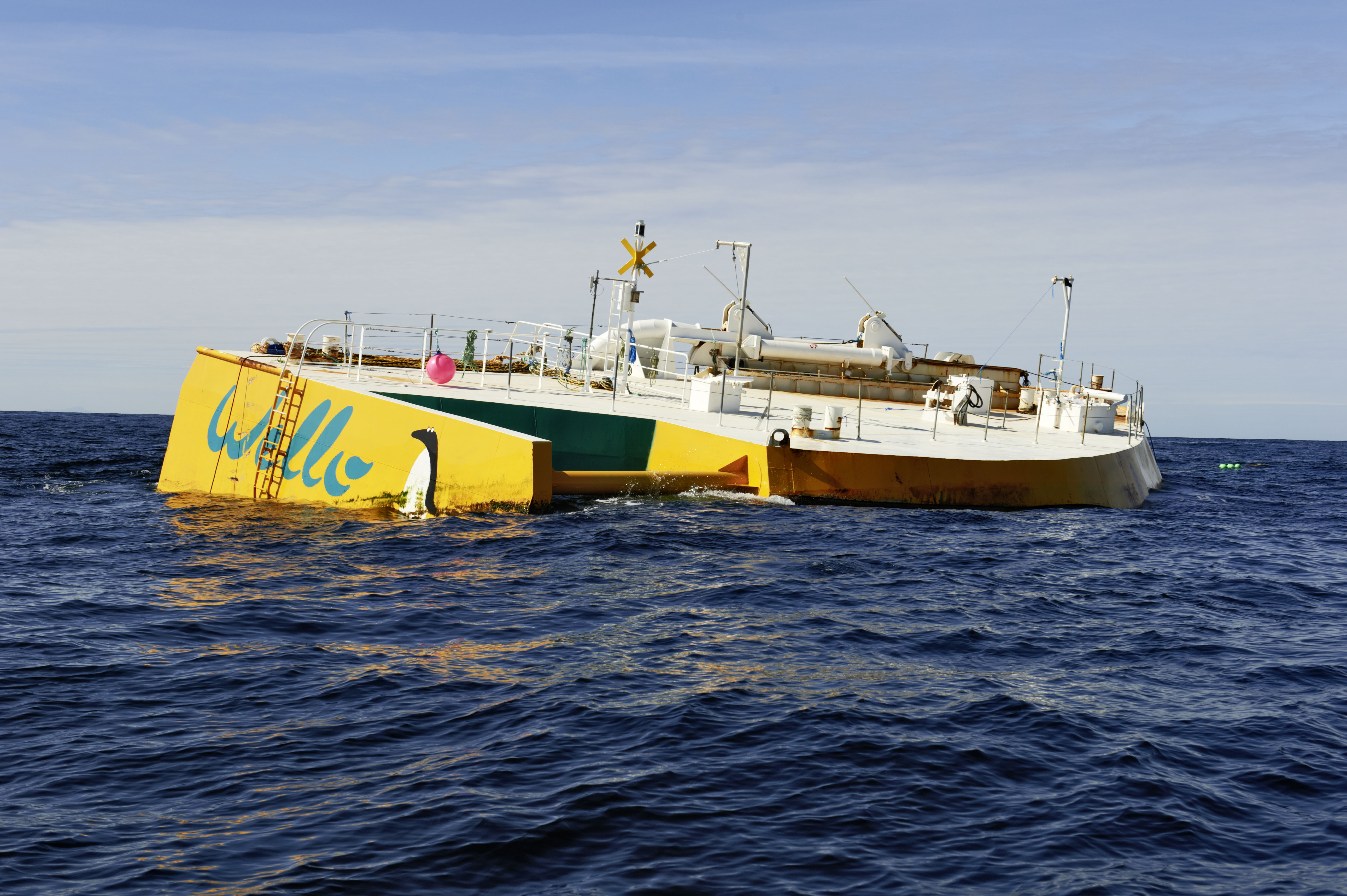 Wave power plant "Penguin" (500 kW) from the Finnish company Wello Oy on the EMEC (European Marine Energy Center) wave energy test field in Bilia Croo Bay near Stromness in Orkney-Mainland, Scotland. 05/14/2014 (C) Photo: Jan Oelker, 2014